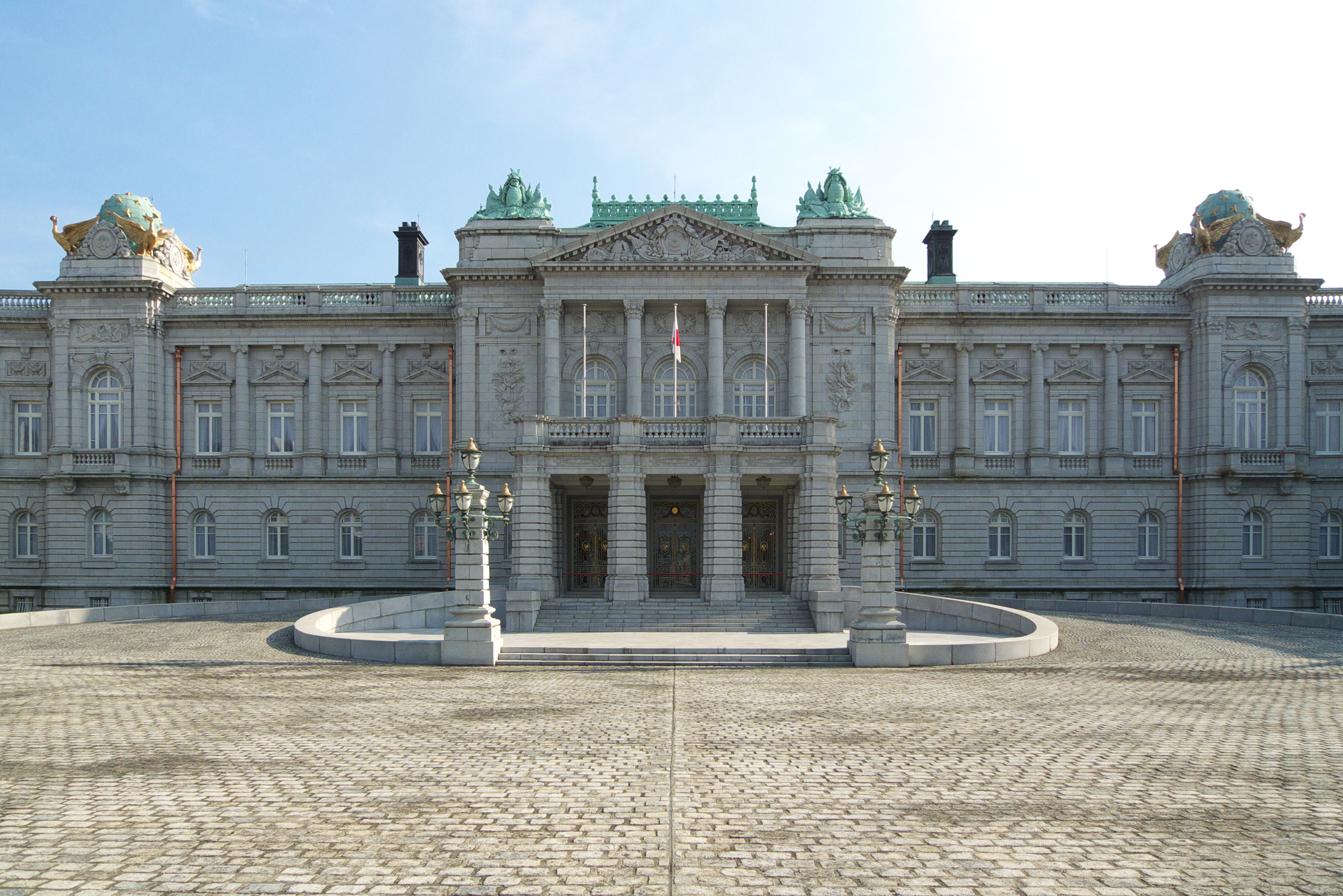 Main entrance of the State Guest House Akasaka Palace